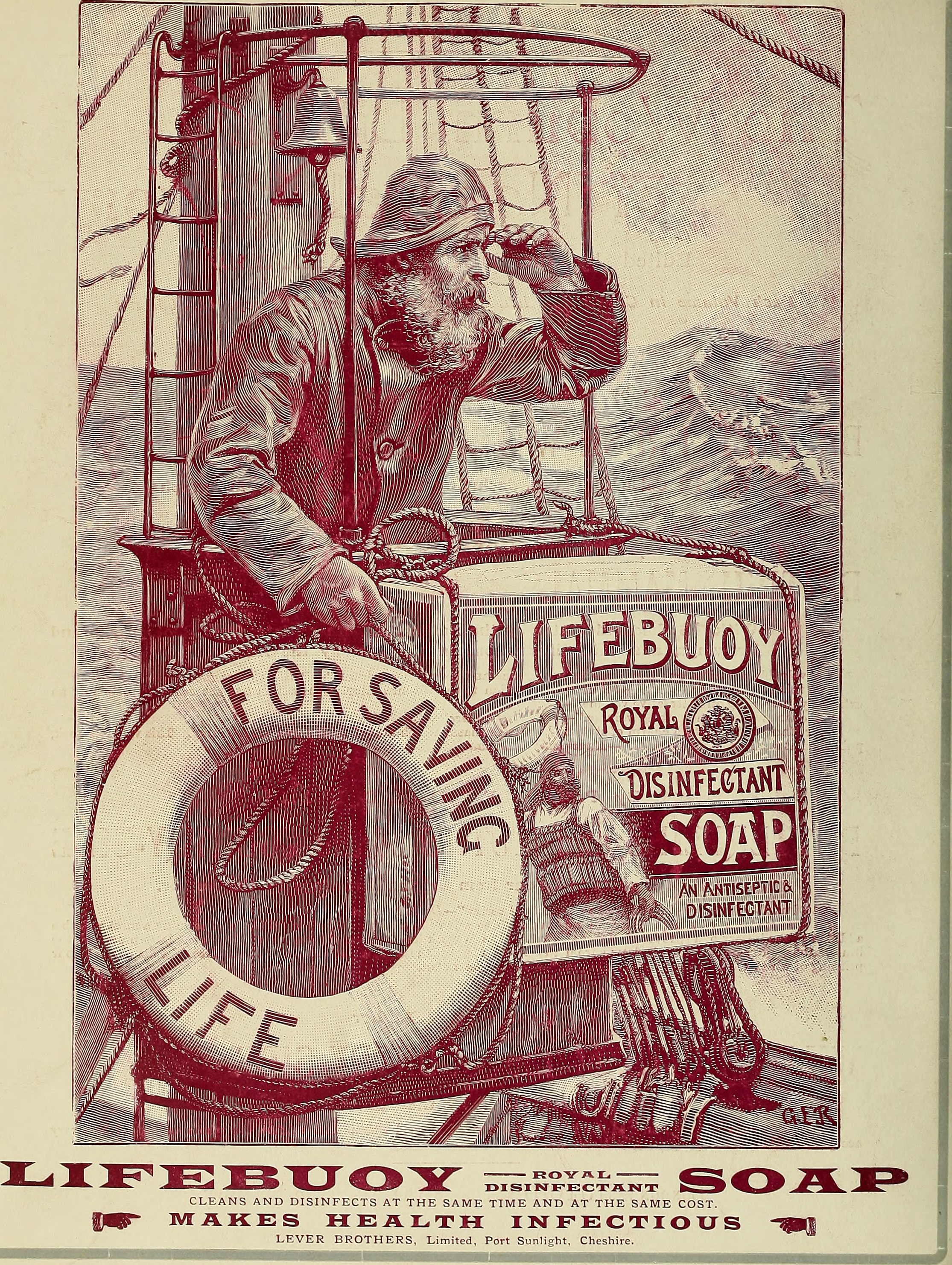 Title: Animal Life and the World of Nature; A magazine of Natural History Year: 1902 (1900s) Authors: Subjects: Publisher: London Text Appearing Before Image: ' Text Appearing After Image: DISINFECTANT CLEANS AND DISINFECTS AT THE SAME TIME AND AT THE SAME COST. imr MAKES HEALTH INFECTIOUS LEVER BROTHERS, Limited, Port Sunlight. Cheshire. TF.LEPHONK (V'fi T OXTIDN W^ PItTNTED BT A. C. POWT,?H. TKNTEB ST., MOOTiFIELDR. AKri fiHORFBTTCH, LONDON, E.O.